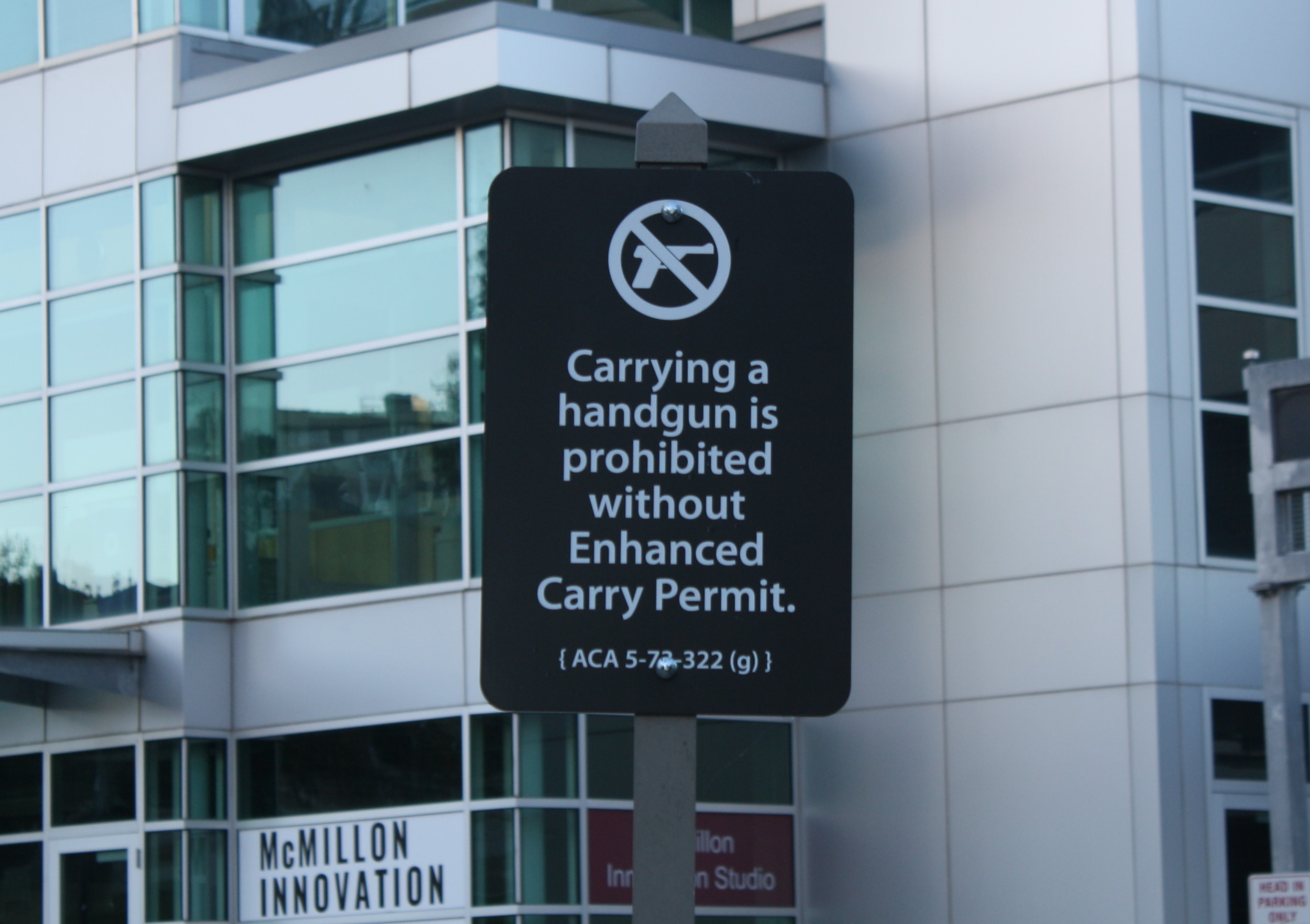 Sign denoting campus carry policy on the campus of the University of Arkansas in Fayetteville